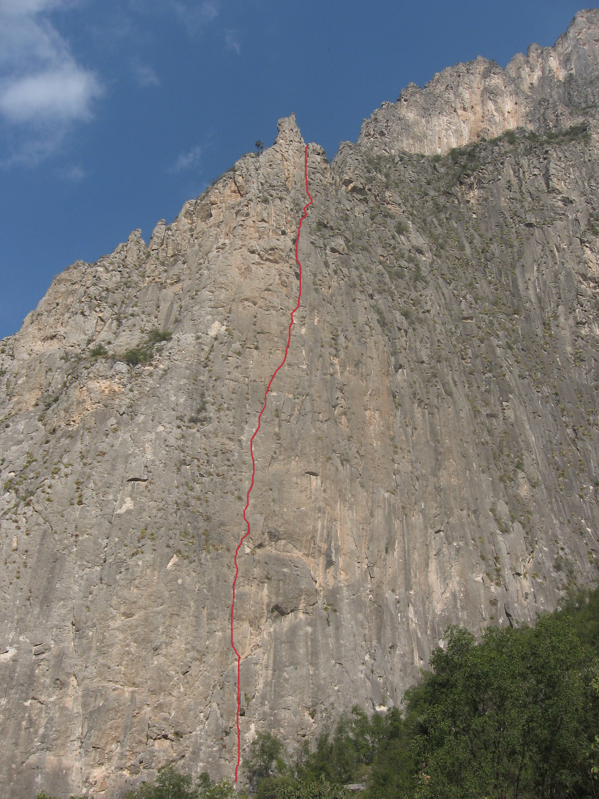 El Potrero Chico - Pancha Via Rides Again marked on Moto Wall. Five pitches of 5.10